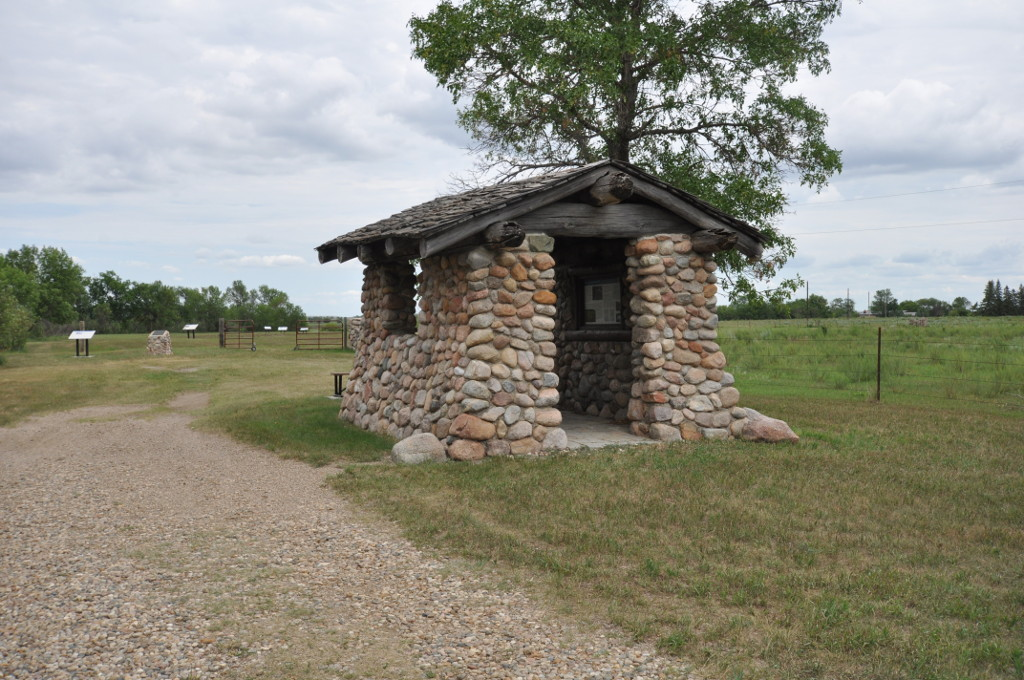 CCC kiosk, part of the Depression Era Work Relief Construction Features at Menoken State Historic Site, Burleigh County, North Dakota.